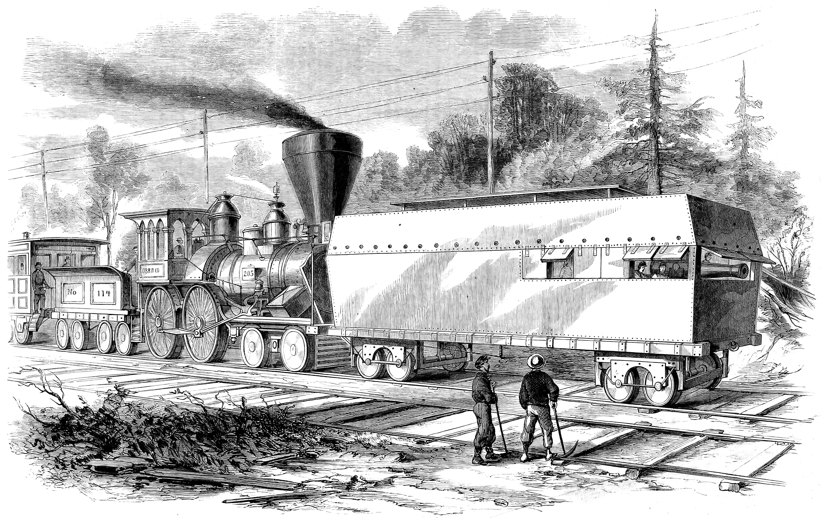 Engraving captioned "The railroad battery on the Philadelphia and Baltimore Railroad, built to protect the workmen while rebuilding the burnt bridges on that road--From a Sketch by William C. Russell, of Wilmington Del. See Page 5."